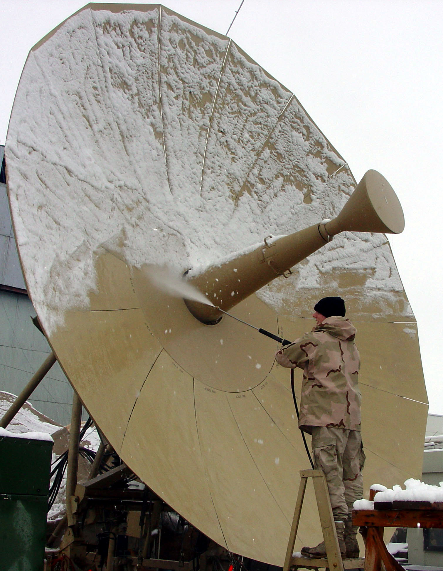 BAGRAM AIR BASE, Afghanistan -- Staff Sgt. Fred Cowell uses a high-pressure washer to remove ice and snow from a satellite dish. The effort returned critical satellite communication signals to normal. Sergeant Cowell is assigned to the 455th Expeditionary Logistics Readiness Squadron's vehicle maintenance branch here. (Courtesy photo) 050204-F-9999H-005.jpg